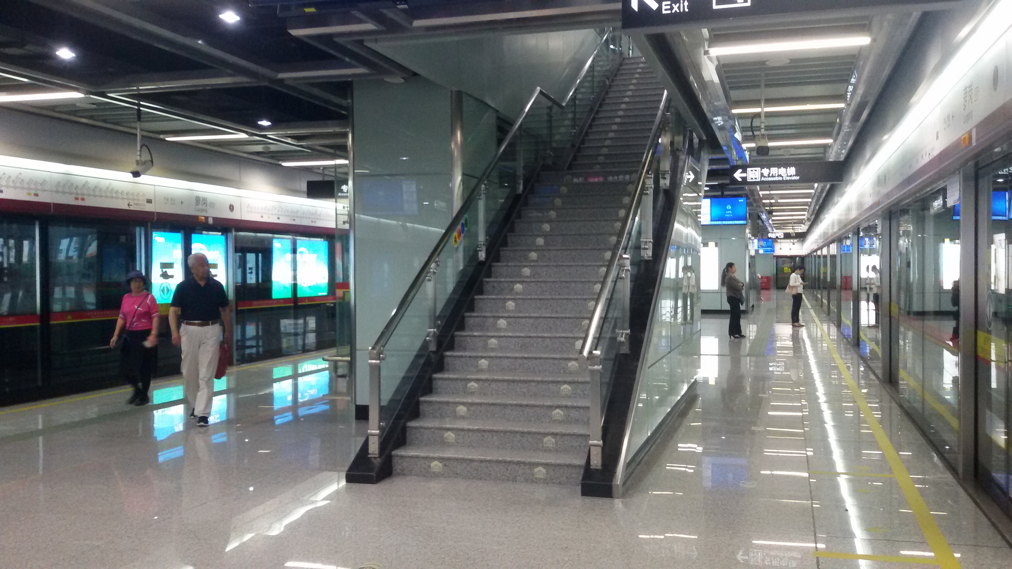 Station Platform for Luogang Station in Guangzhou Metro.